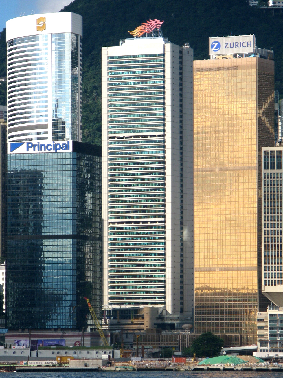 HK Queensway Government Offices 香港zh:金鐘道政府合署